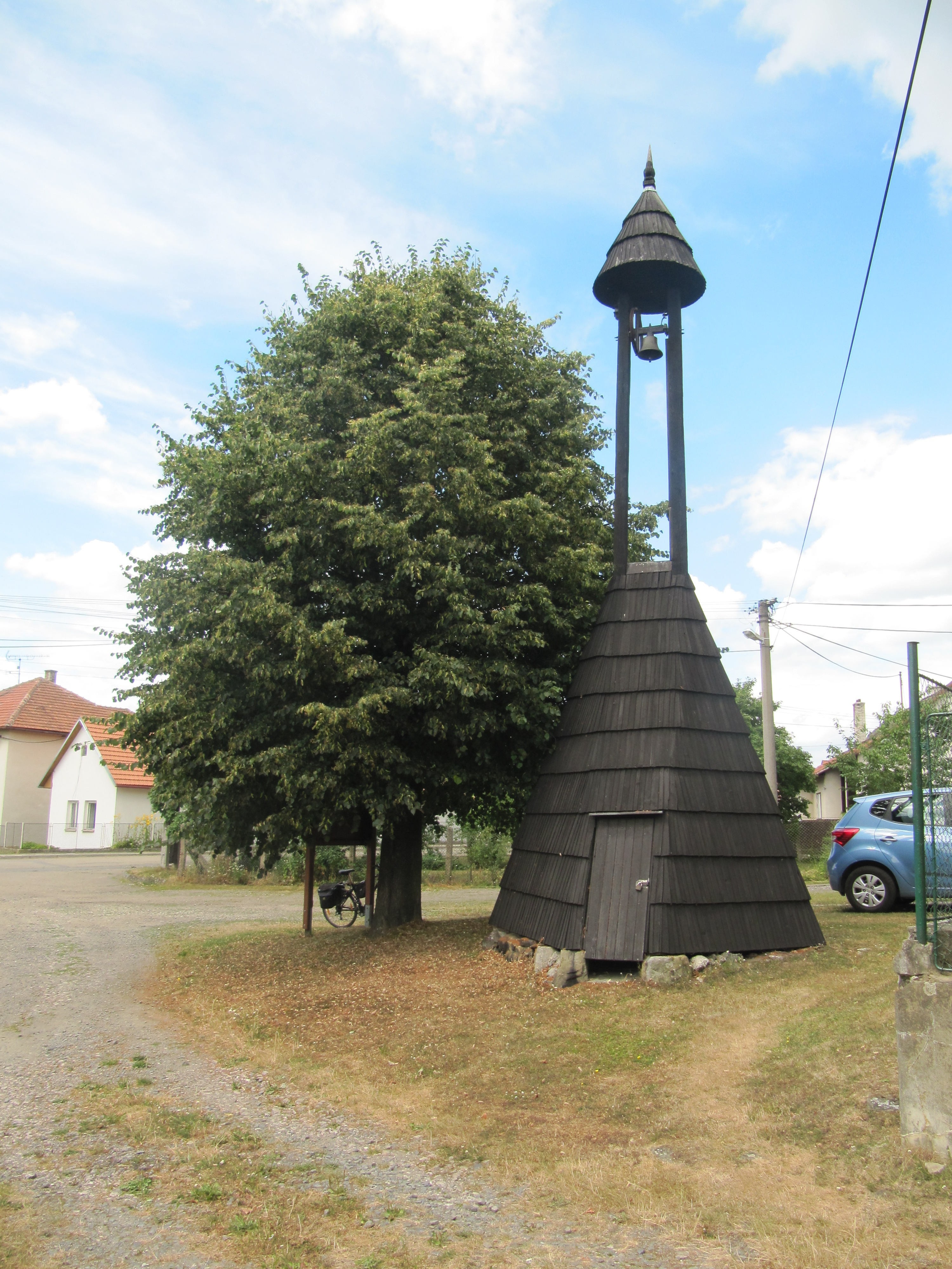 Vlachovice, Zlín District, Czech Republic, part Vrbětice. Listed belfry.